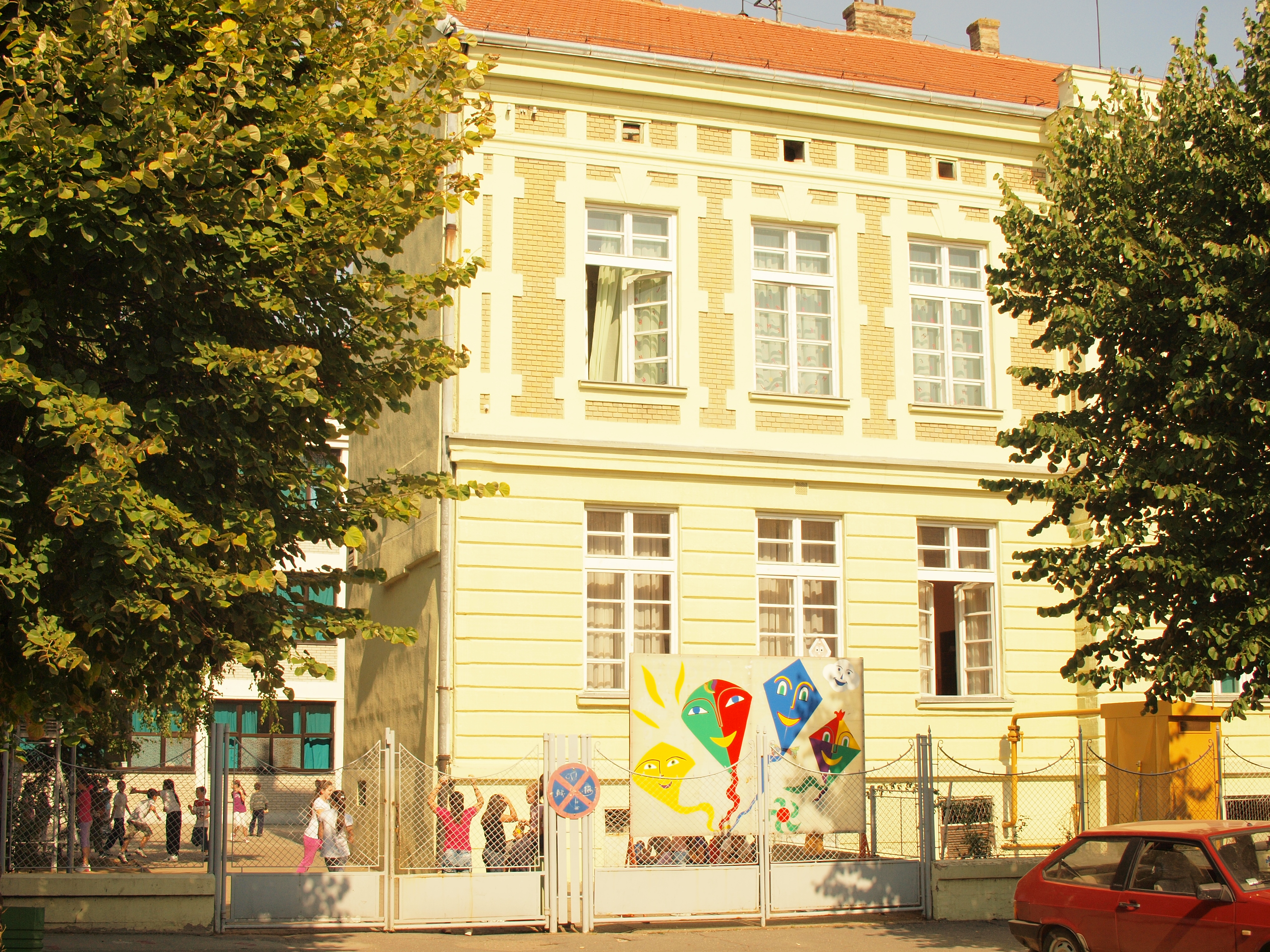 Osnovna skola Ruma